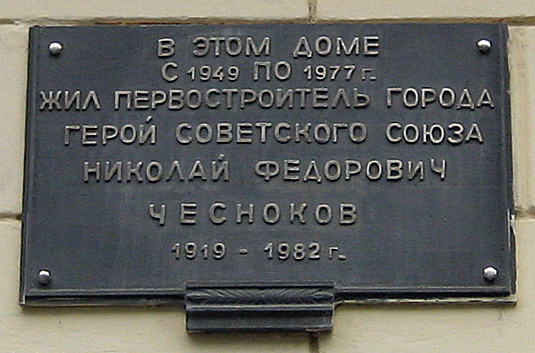 Tortseva Street, Severodvinsk / Polyarnaya Street, Severodvinsk